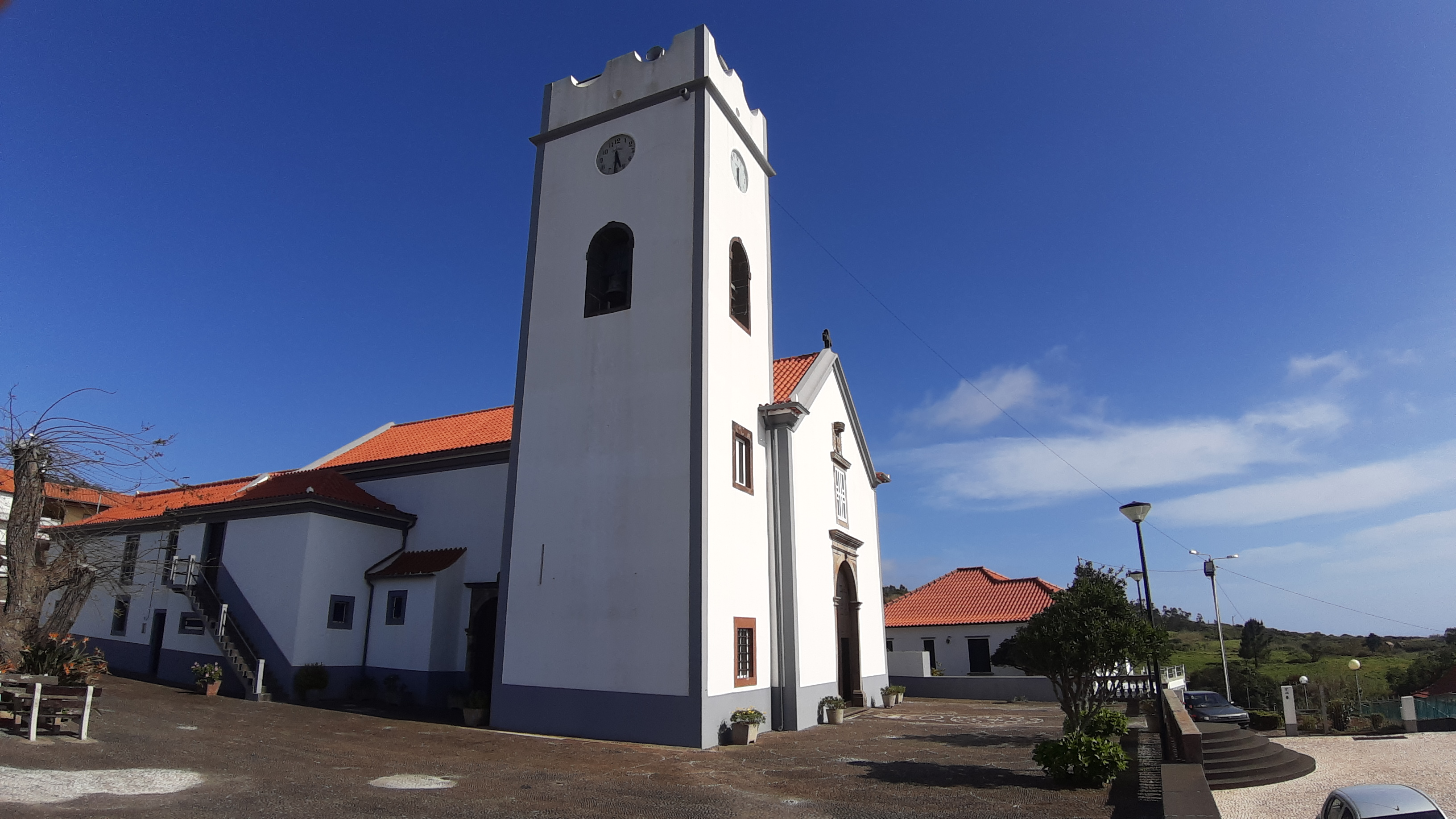 Igreja de São Pedro, Ponta do Pargo